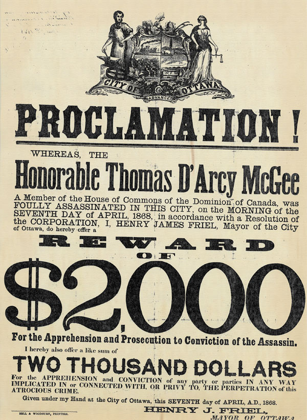 Proclamation by Henry J. Friel, Mayor of Ottawa, offering a reward for the capture and conviction of the assassin of Thomas D'Arcy McGee. Full text: "Proclamation! Whereas, the Honorable Thomas D'Arcy McGee, a member of the House of Commons of the Dominion of Canada, was foully assassinated in this city, on the morning of the seventh day of April, 1868, in accordance with a Resolution of the Corporation, I, Henry james Friel, Mayor of the City of Ottawa, do hereby offer a reward of $2000 for the apprehension and prosecution to convinction of the assassin. I hereby also offer the sum of two thousand dollars for the apprehension and conviction of any party or parties in any way implicated in or connected with, or privy to, the perpetration of this atrocious crime. Given under my hand at the City of Ottawa, this seventh day of April, A.D., 1868. Henry J. Friel, Mayor of Ottawa."